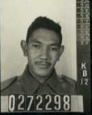 enlistment photo of J C Buxton